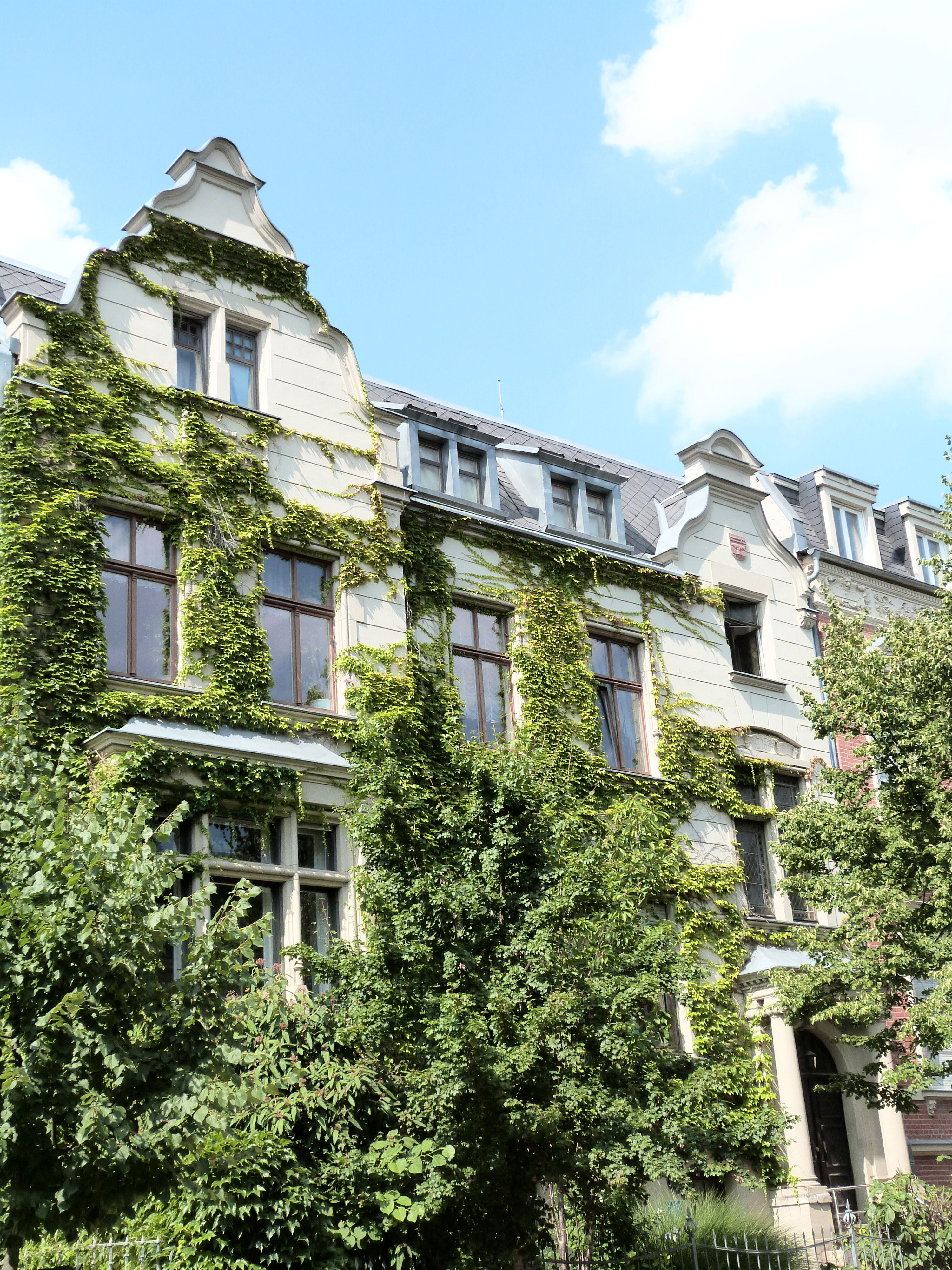 House No. 13 Reichardtstraße in halle (Saale)